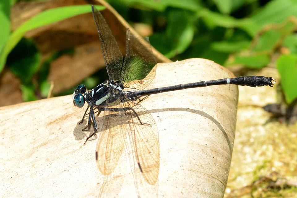 Heliogomphus promelas, Indian Grappletail, Indian Lyretail, is a black and green or bluish dragonfly found in Western Ghats. Males can be seen patrolling stretches of hill streams, perching for brief spells in between on fallen logs or sandy shores. Females almost never seen, comes to water only for ovipositing. This species is found on small mountain streams or occasionally restricted to tiny brooks or seepages on hillsides. It occurs in colonies, and, where found, is usually moderately common. The species is endemic to the Western Ghats, India. Ref